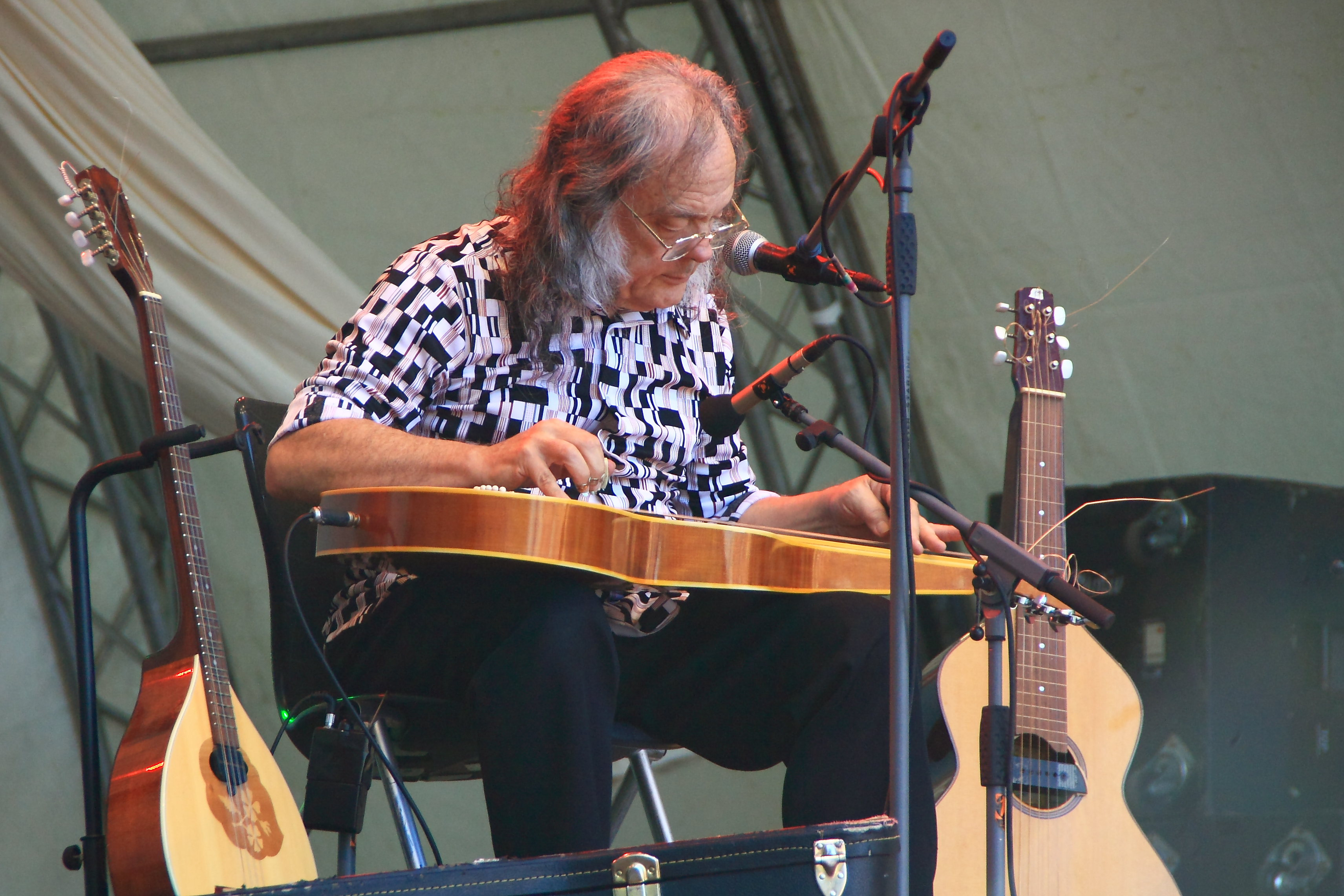 David Lindley playing the Weissenborn guitar at TFF Rudolstadt 2013.